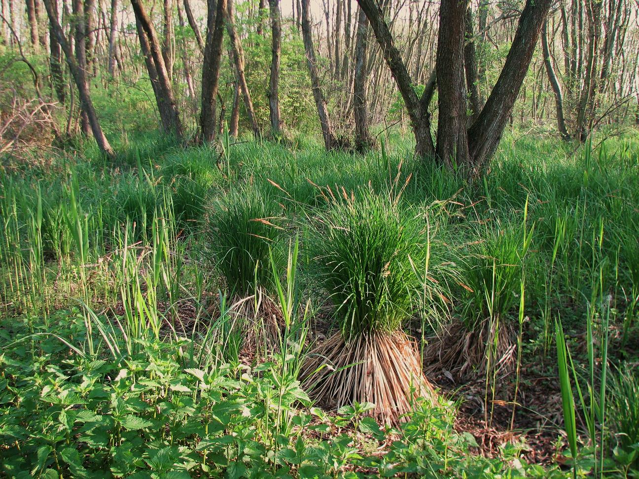 An alder woodlan in Lomellina, Italy. The area is protected as a Natural monument and is a SPA-Special protection area